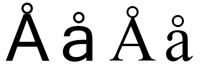 Latin_letter_Åå.